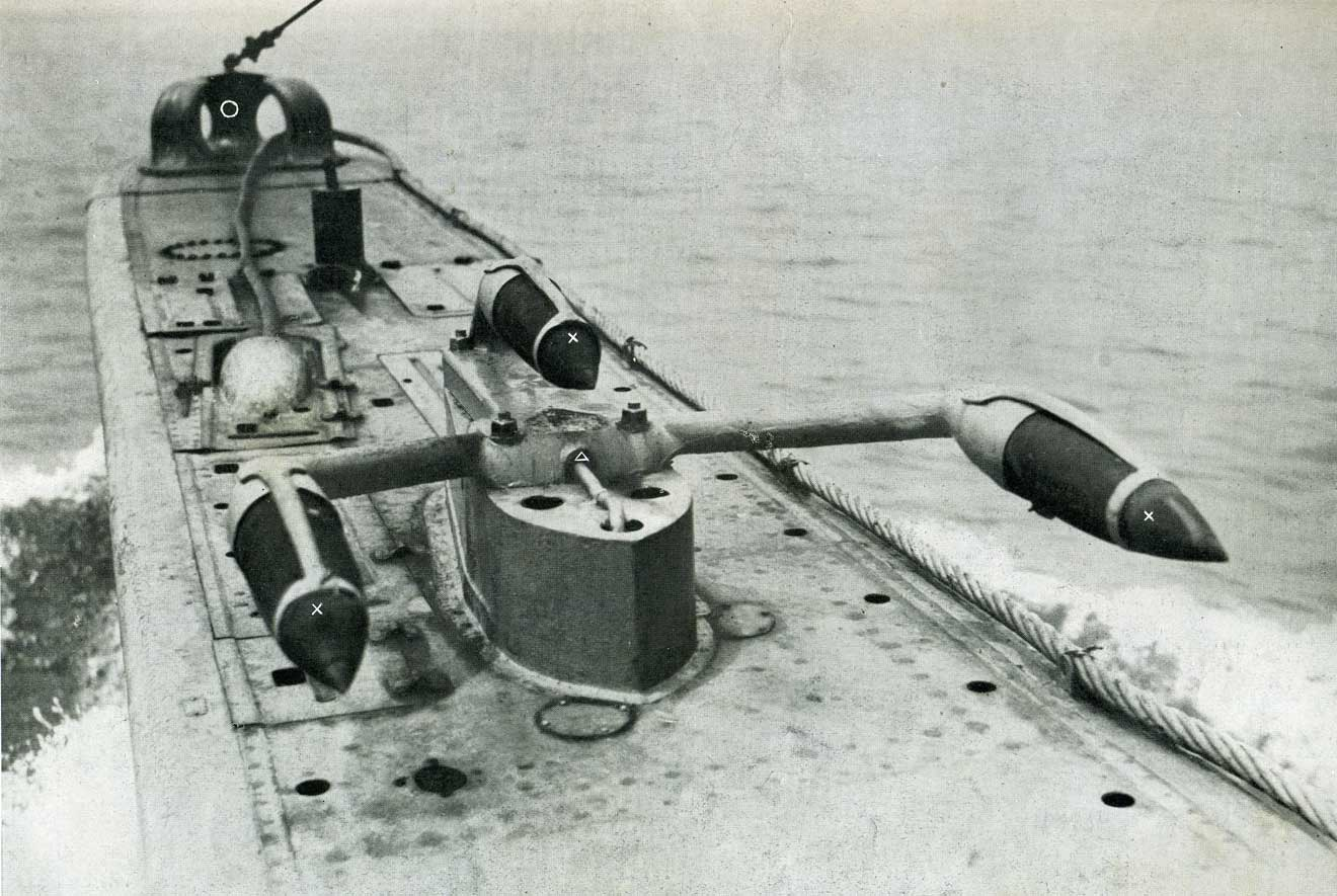 Sound Detector Attached on the Submarine